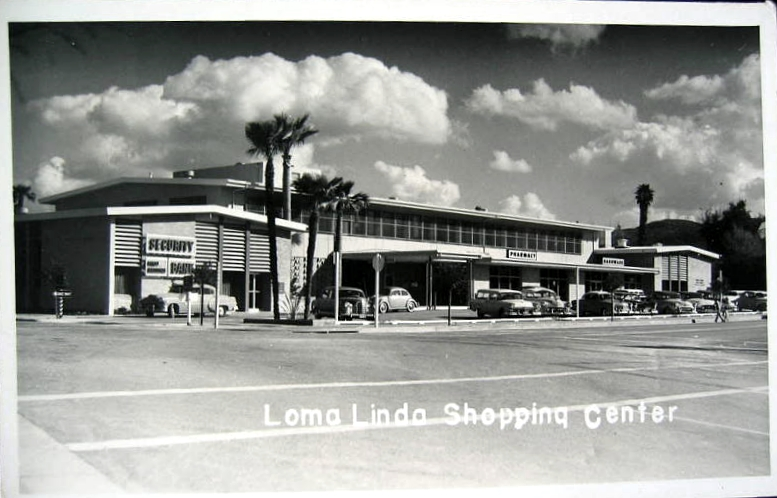 A black and white real photo postcard of the business center, student store, bank and post office complex on the Loma Linda University campus in Loma Linda, California. The back of the postcard is blank. The center is located at 11147 Anderson Street and was built in 1957. Currently the center serves as the Loma Linda University Student Services and Welcome Center as of 2015.